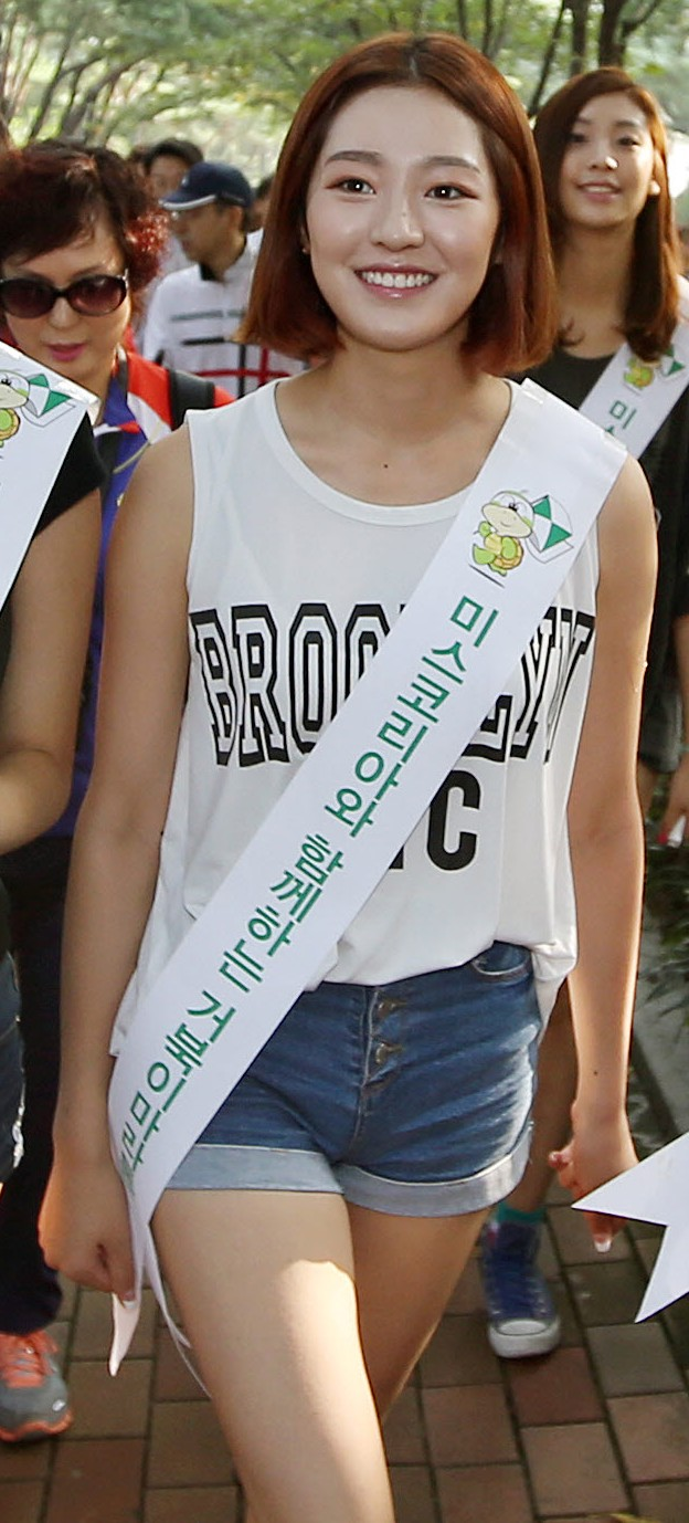 Namsan Trail Turtle Walk-A-Thon August 24, 2014 Namsan, Seoul Ministry of Culture, Sports and Tourism Korean Culture and Information Service ( Official Photographer: Jeon Han This official Republic of Korea photograph is CC-BY-SA-2.0-licensed, so while restrictions such as personality or privacy rights may apply, in general, manipulations are allowed. If you require a photograph without a watermark, please use Flickr e-mail.